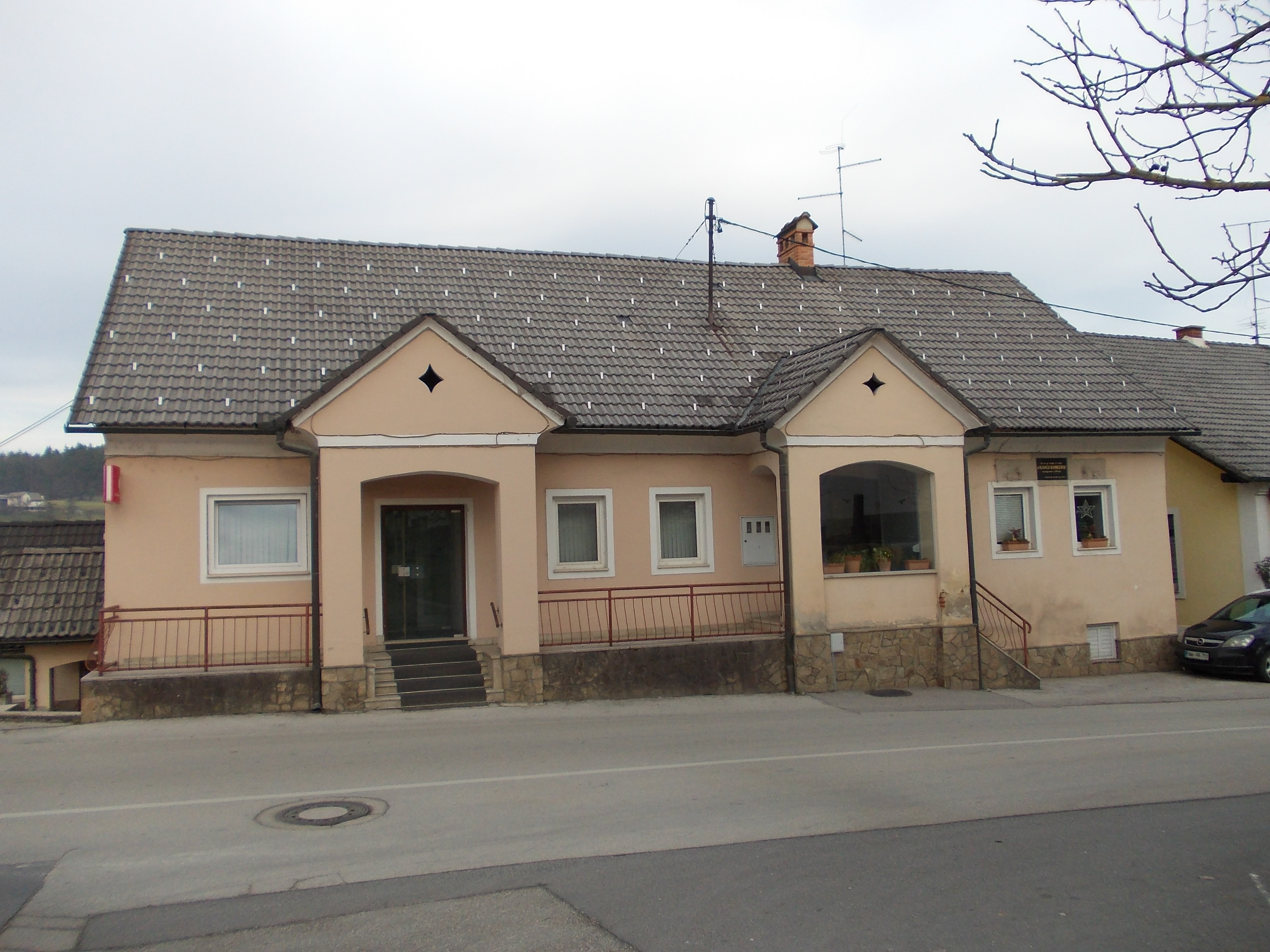 Knoblehar House